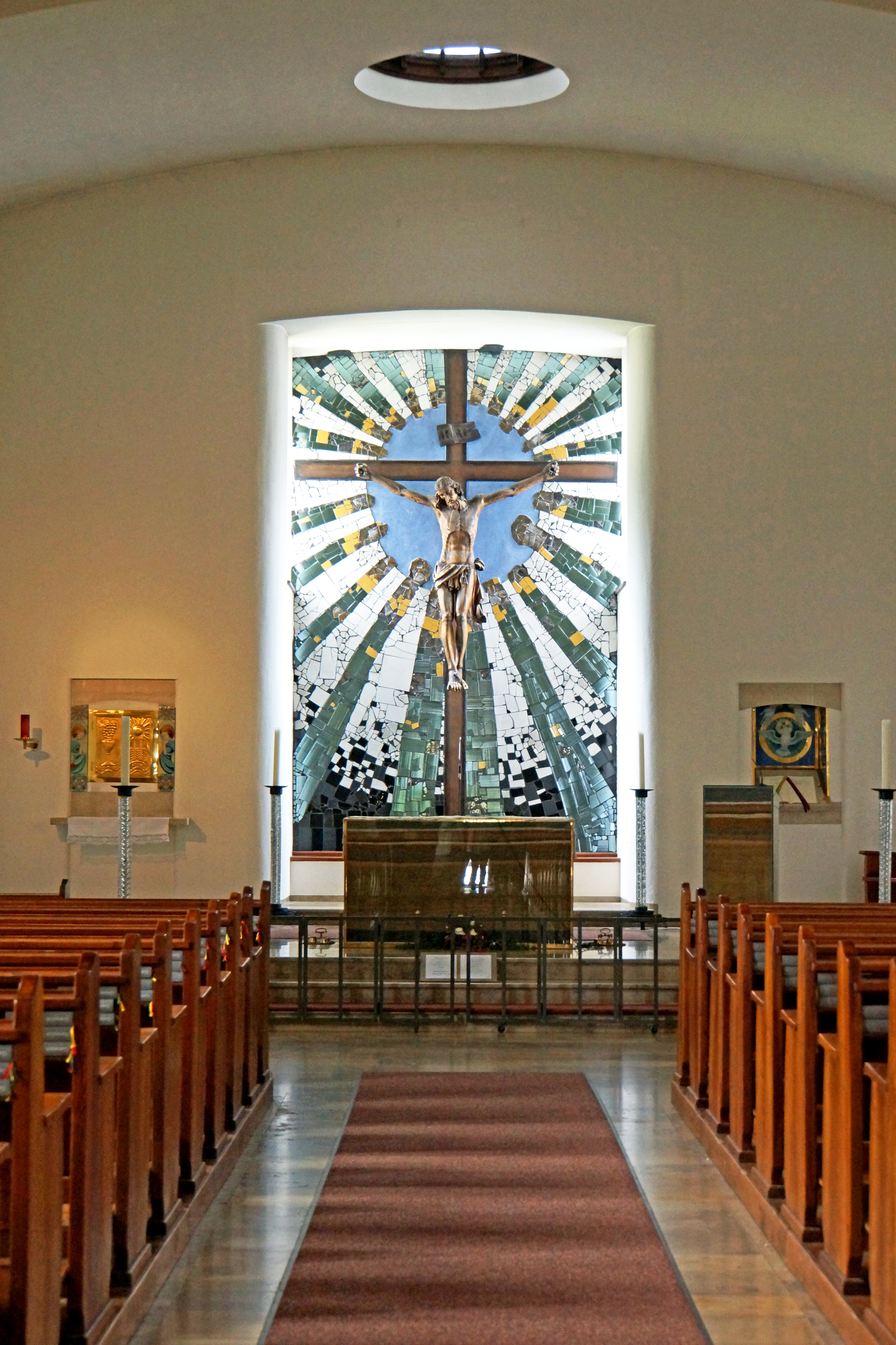 Looking down the nave of the church and altar. Saint Barbara Church in Barnbach. The church of Saint Barbara (patron of miners) originally was built in 1948-1953, in Bärnbach, Styria. Later in 1987 on the initiative of Father Friedrich Zeck and the active support of Mayor Conrad Bergmann the church was redesigned under the project of the famous artist Friedensreich Hundertwasser, who together with architect Manfred Fuchsbichler created a unique and joyful masterpiece.